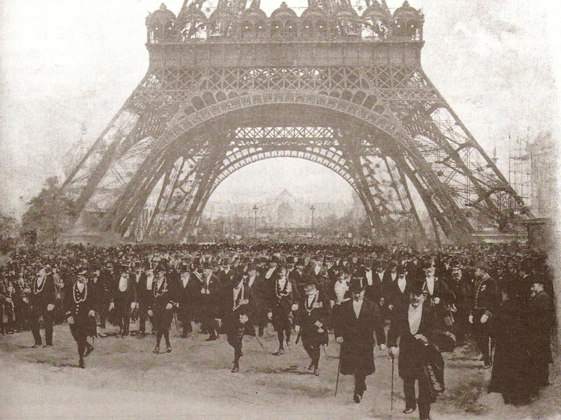 Official opening ceremony of the world fair 1900 in Paris. Photography, reproduction, no restrictions on use.